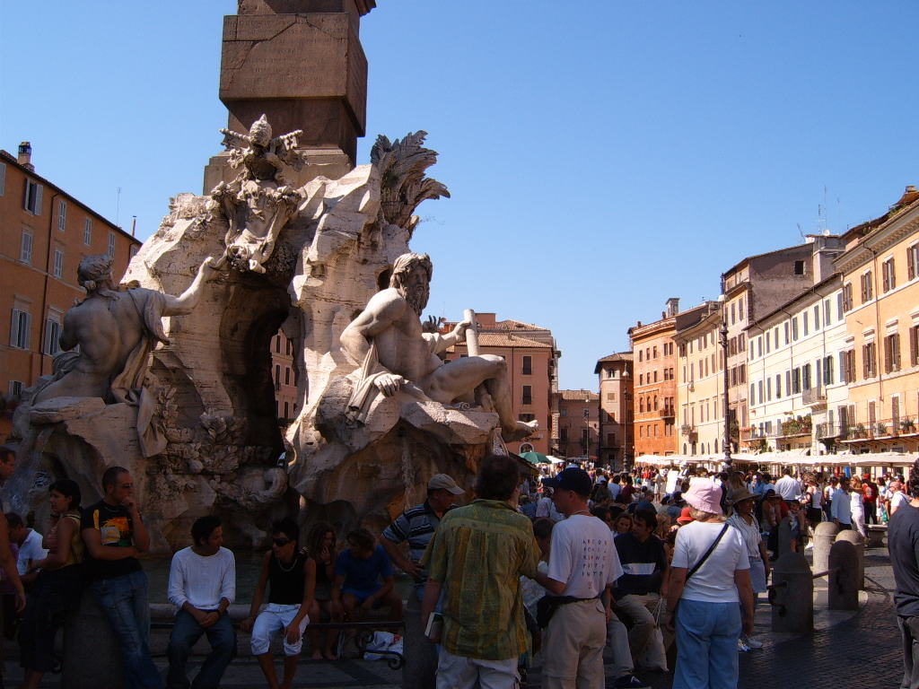 The "Fontana dei Quattro Fiumi" (Fountain of the four rivers) by Gianlorenzo Bernini in piazza Navona in Rome, Italy.